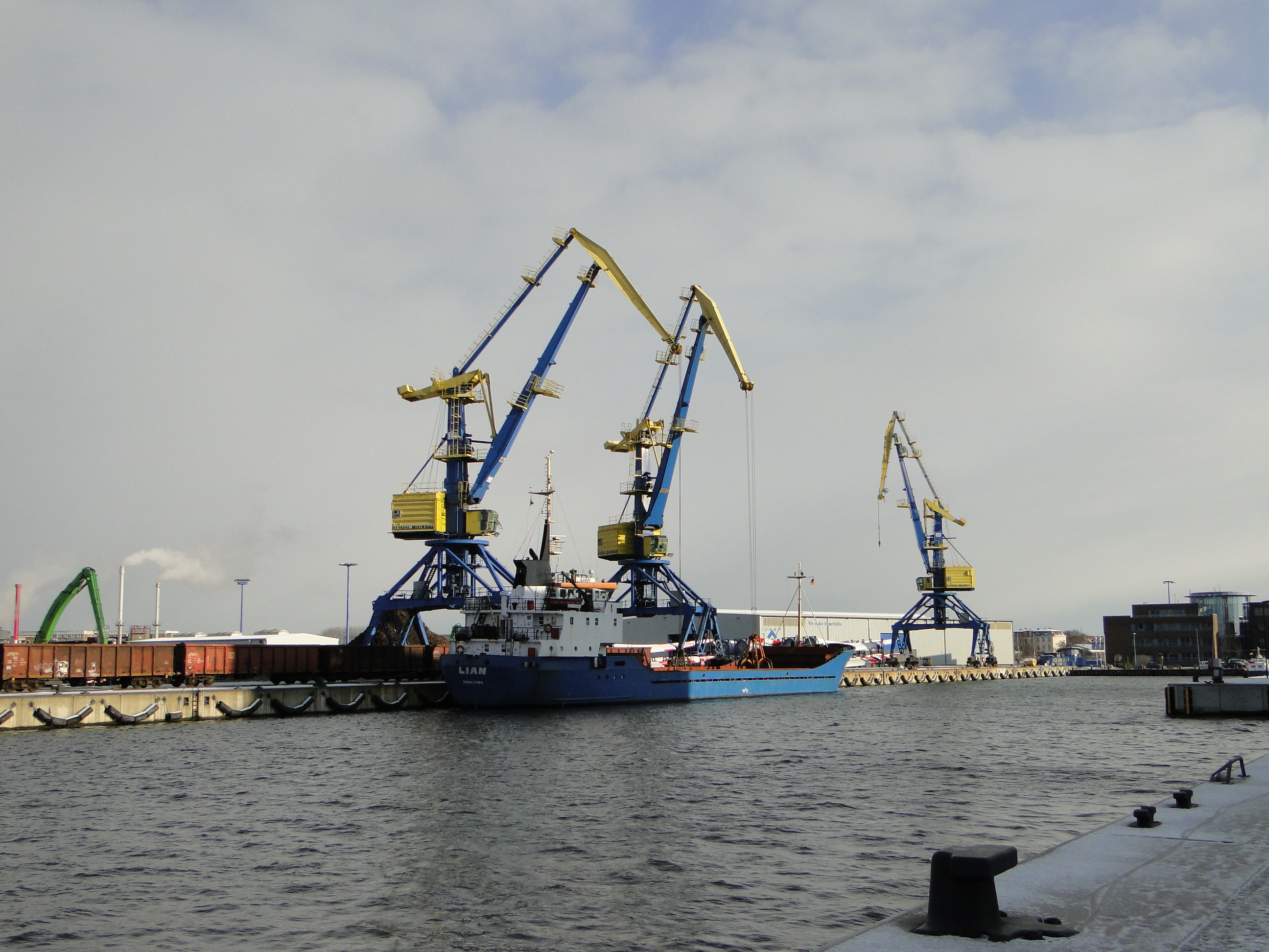 Sea harbour in Wismar, district Nordwestmecklenburg, Mecklenburg-Vorpommern, Germany